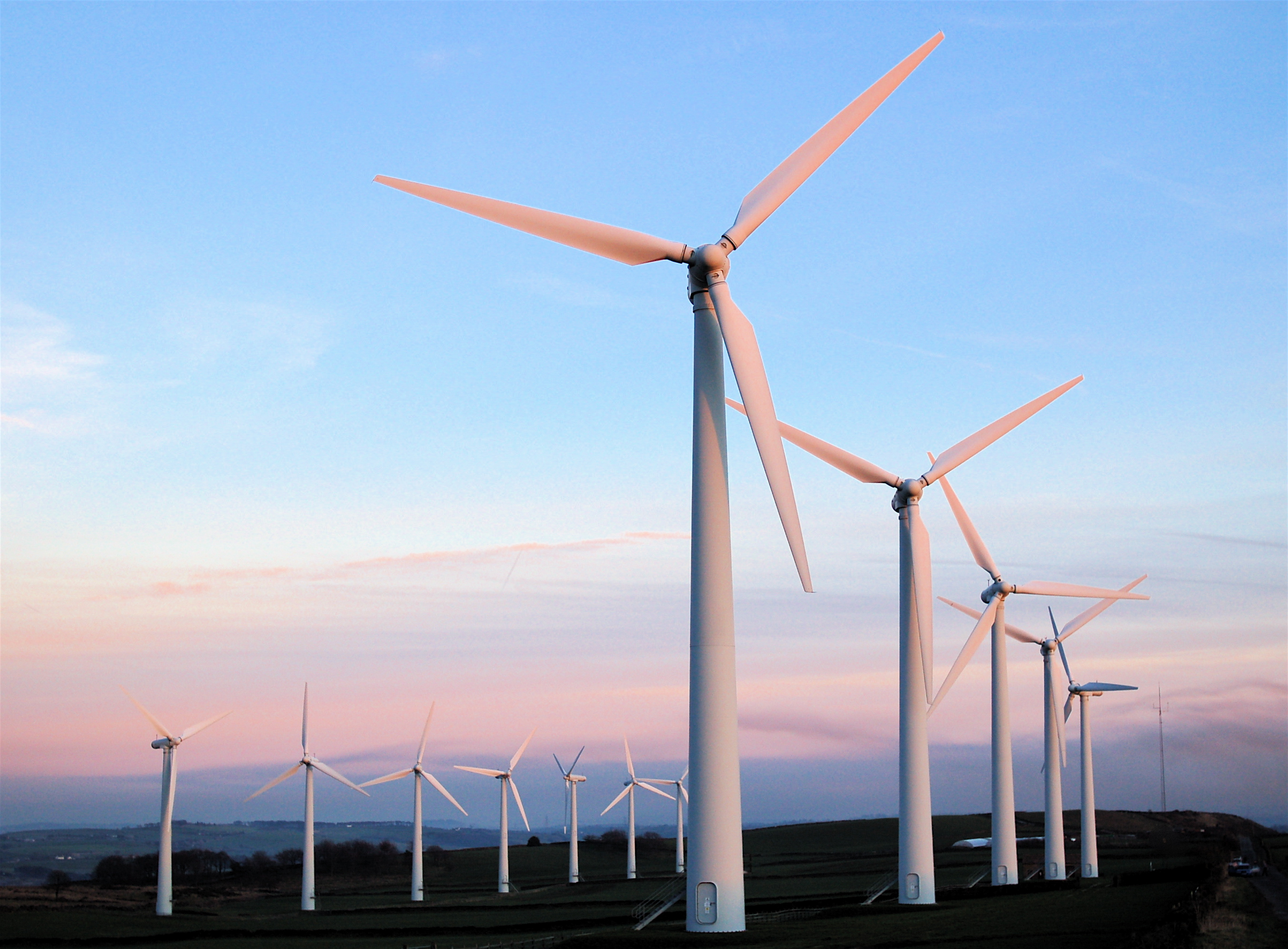 Sunset at Royd Moor Wind Farm